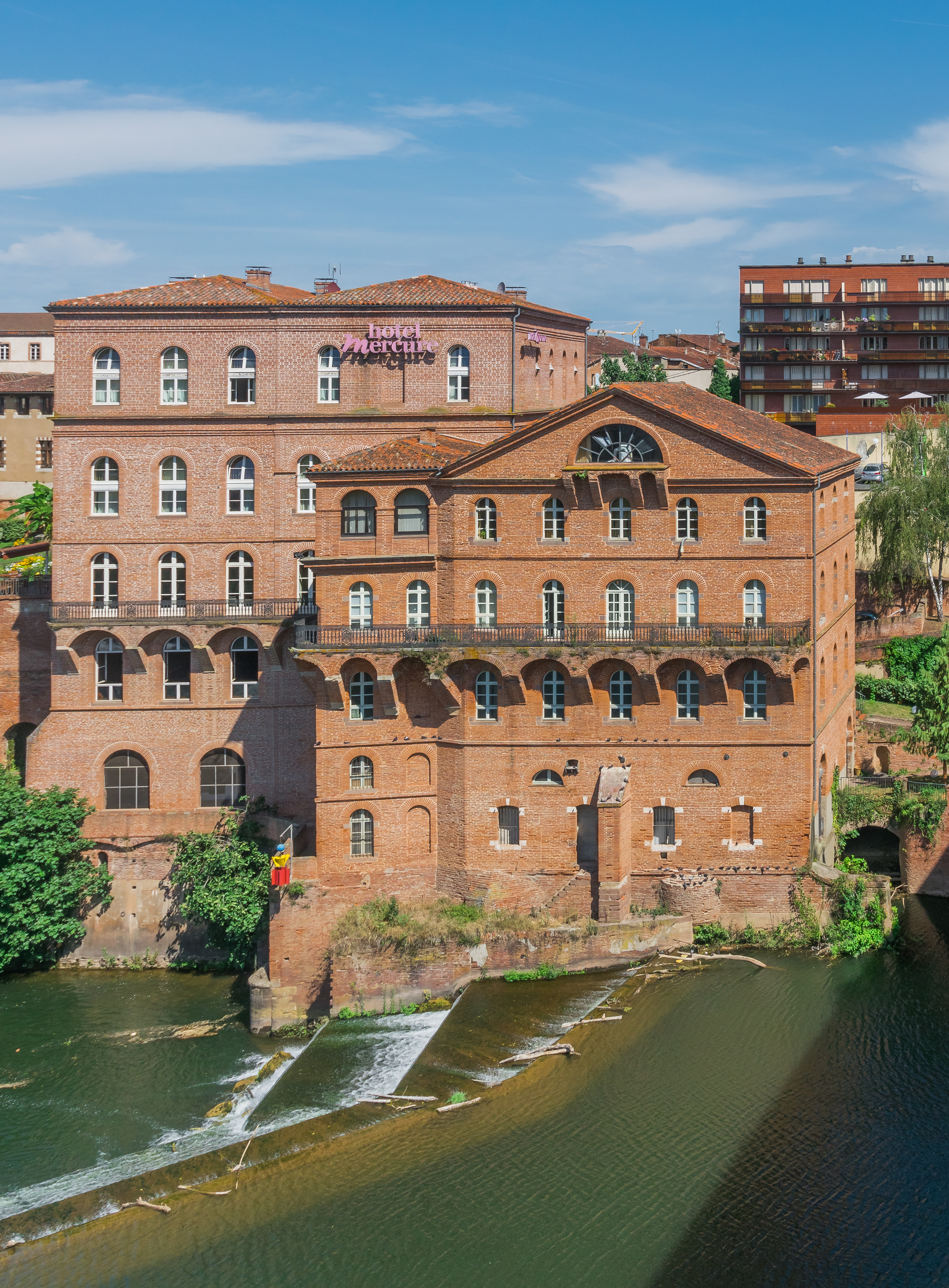 Vermicellery of Albi, Tarn, France .